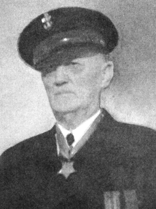 Jesse Whitfield Covington, Naval officer, a recipient of the Medal of Honor